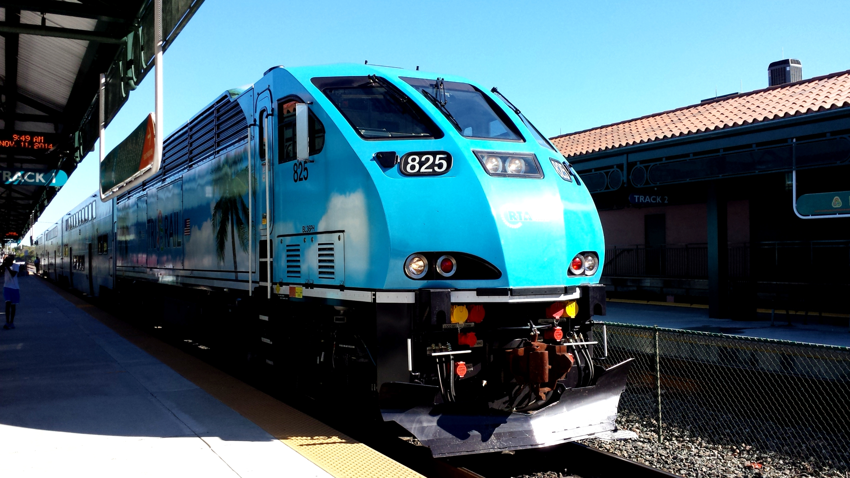 A Brookville BL36PH front ends a Tri-Rail train in Florida.